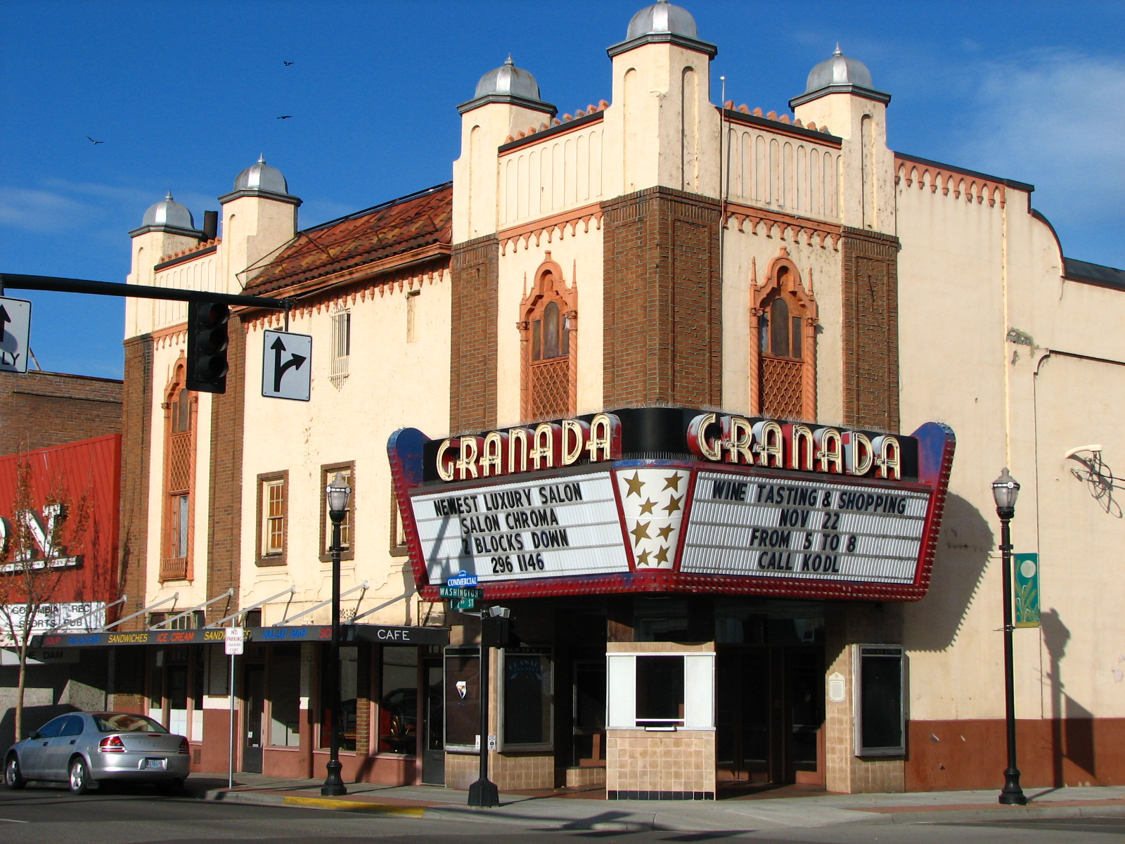 The historic Grenada Theater (built 1930), located at the corner of East 2nd Street and East Washington Street in The Dalles, Oregon, United States, lies within The Dalles Commercial Historic District.